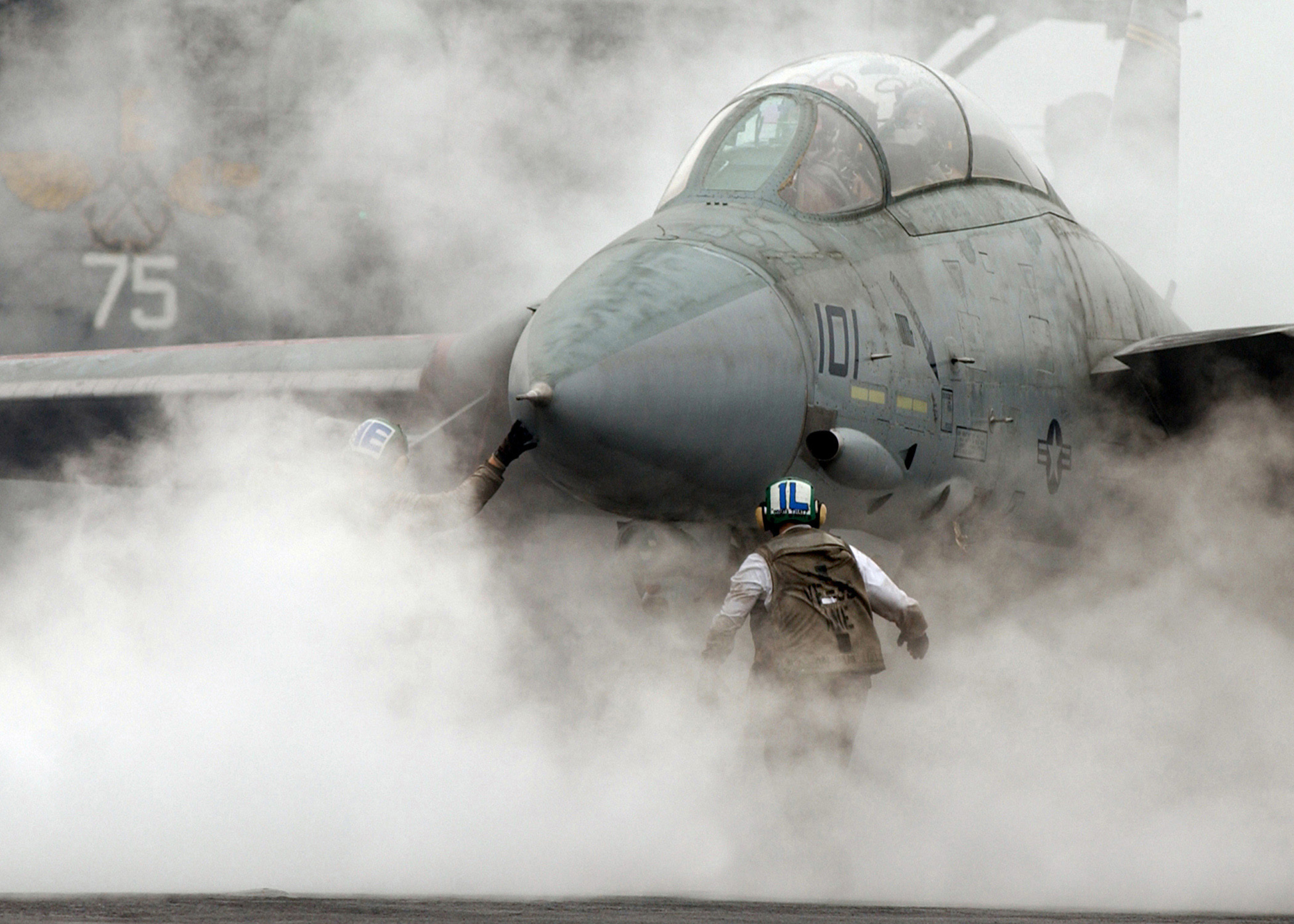 Steam from the catapult envelopes a Navy F-14B Tomcat as the flight crew prepares it for launch from the flight deck of the aircraft carrier USS Harry S. Truman (CVN-75) on Feb. 22, 2005, while underway in the Persian Gulf. The Truman Strike Group and Carrier Air Wing 3 were conducting close air support, intelligence, surveillance, and reconnaissance missions over Iraq. The Tomcat was attached to Fighter Squadron 32 of Naval Air Station Oceana, Va.